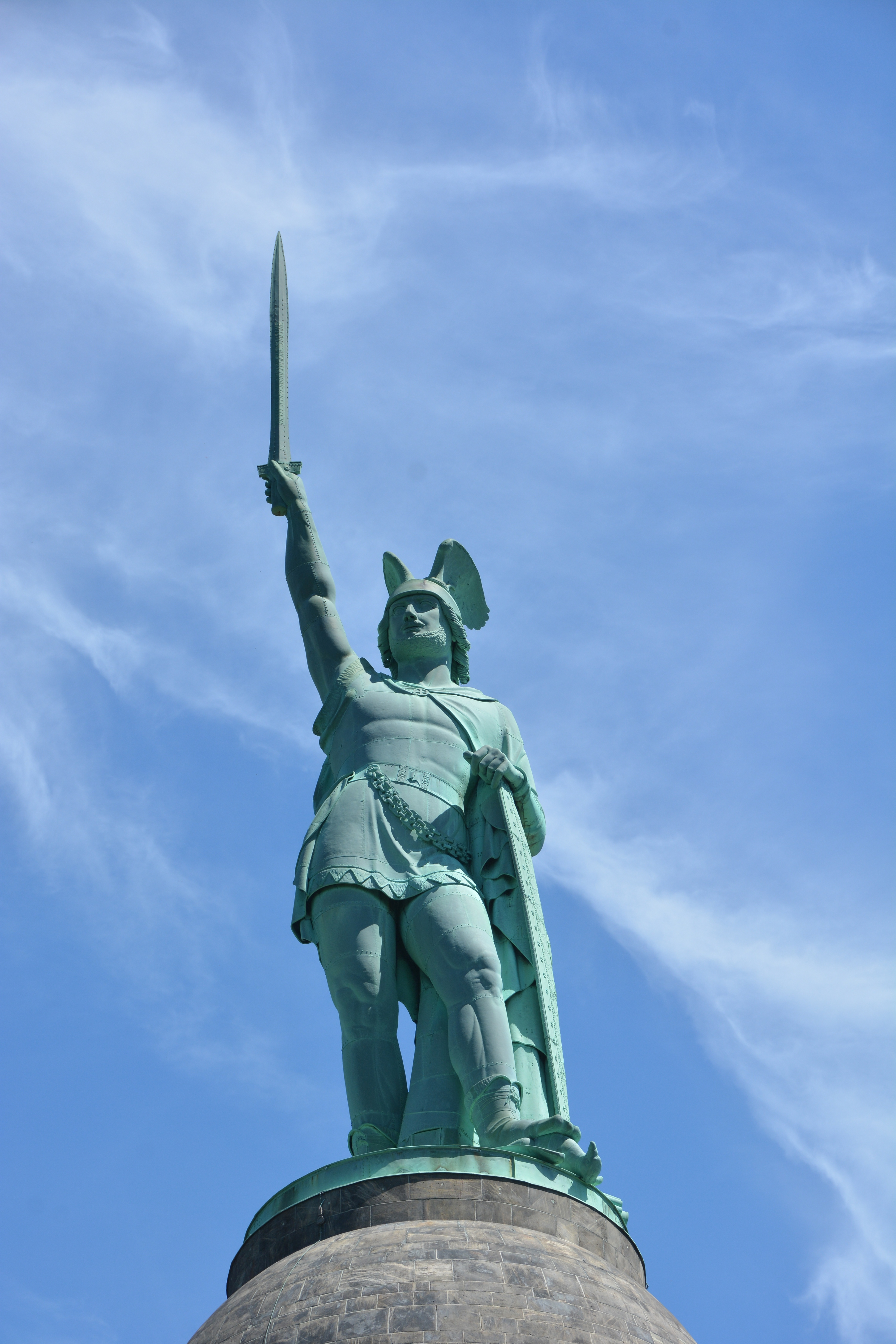 Hermannsdenkmal ("Hermann Monument") in the Teutoburger Wald (Teutoburg Forest), Germany